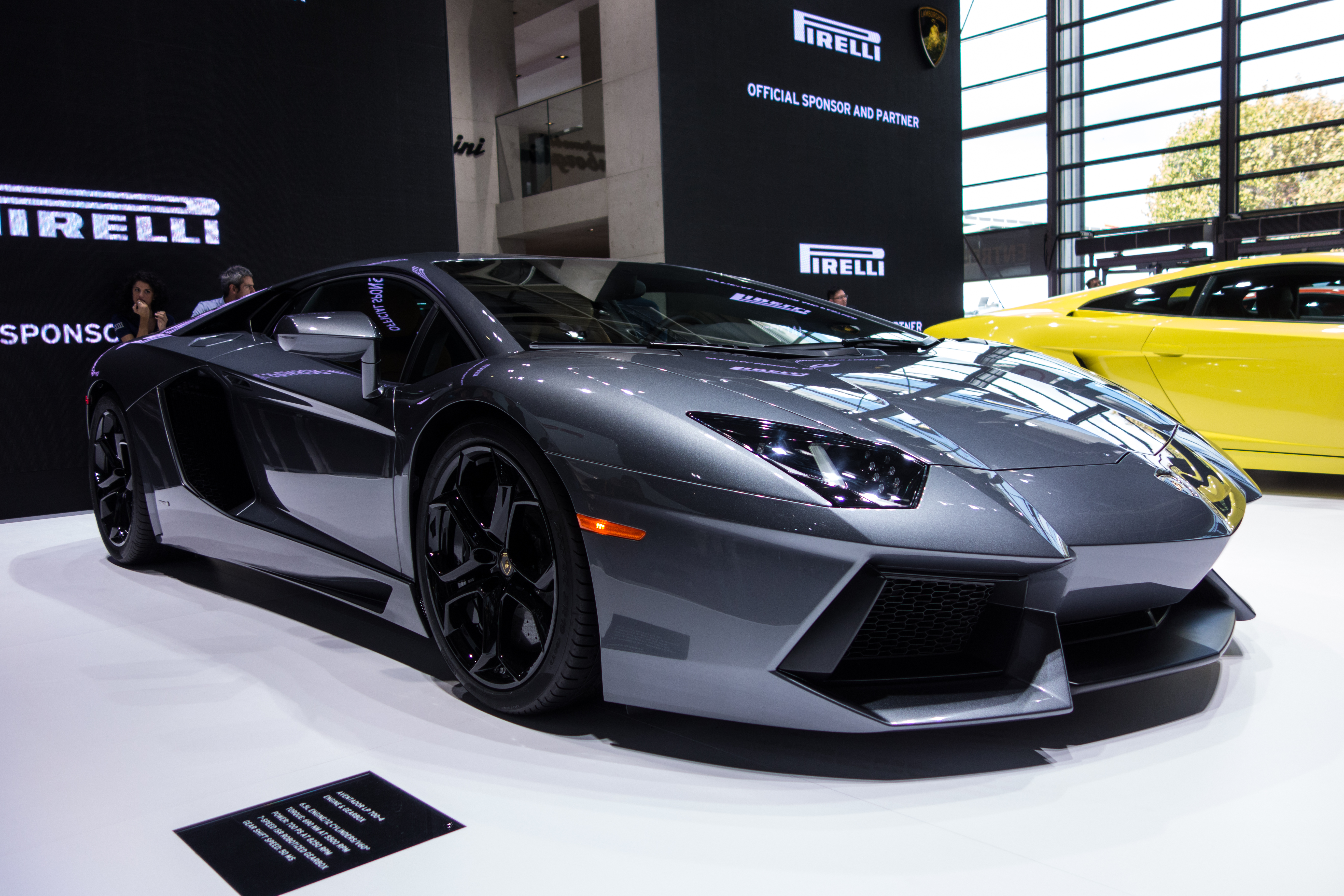 Mondial De L'automobile Paris 2012 | Paris Motor Show 2012